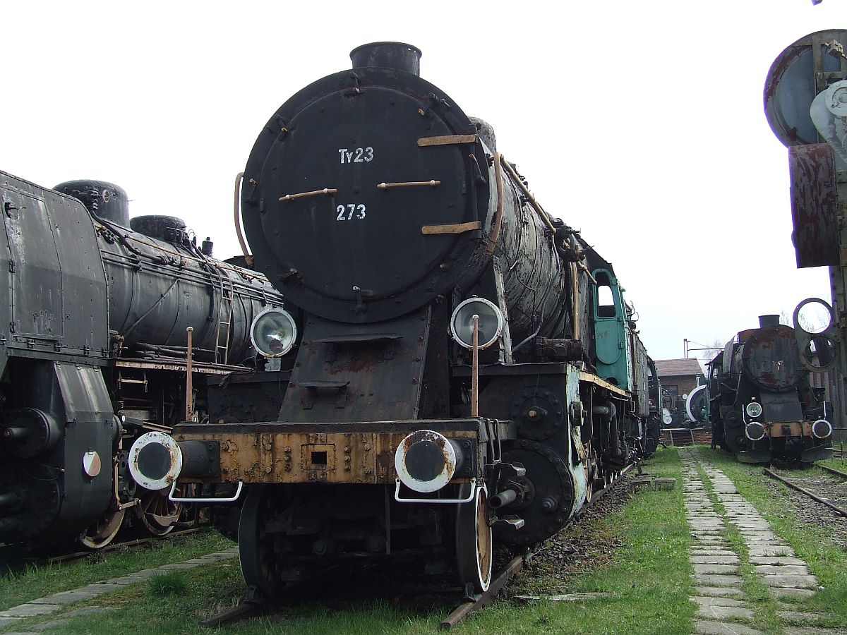 Ty23-273 in Karsznice railway museum, Poland